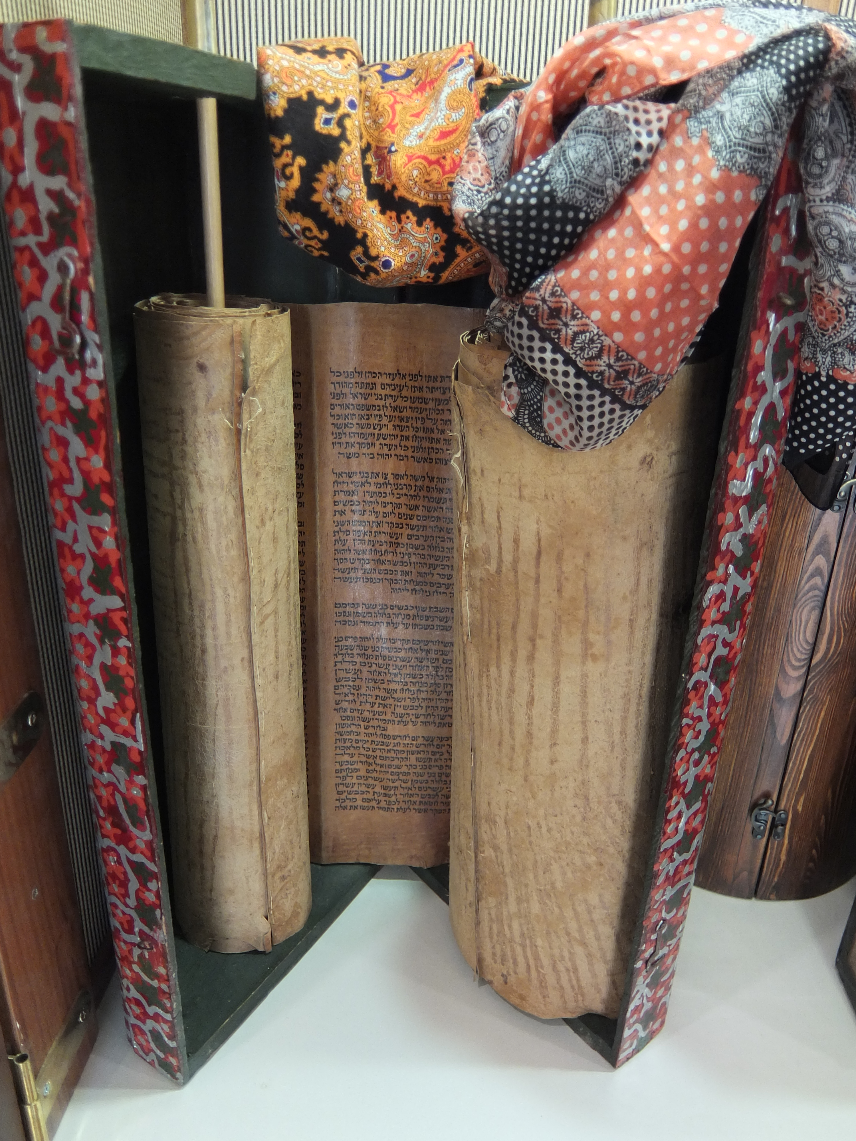 The Jewish scroll of the Mosaic Law